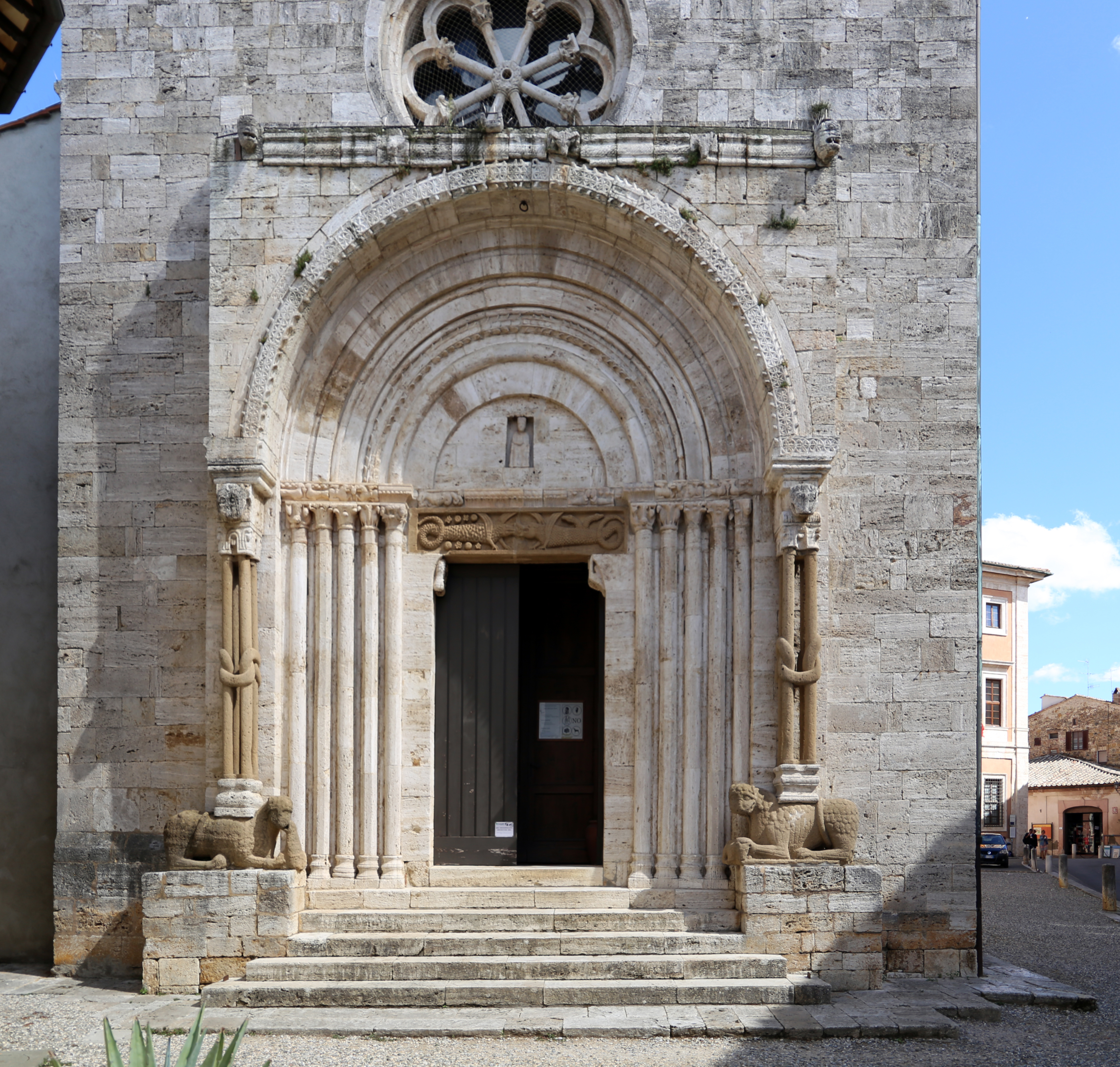 Collegiata di San Quirico d'Orcia